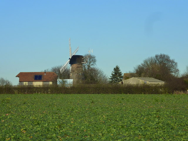 Reeds Mill near Kingston